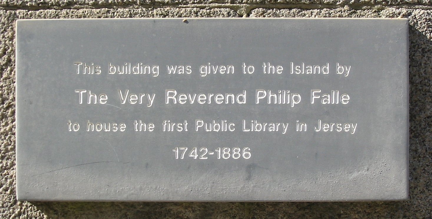 Jersey